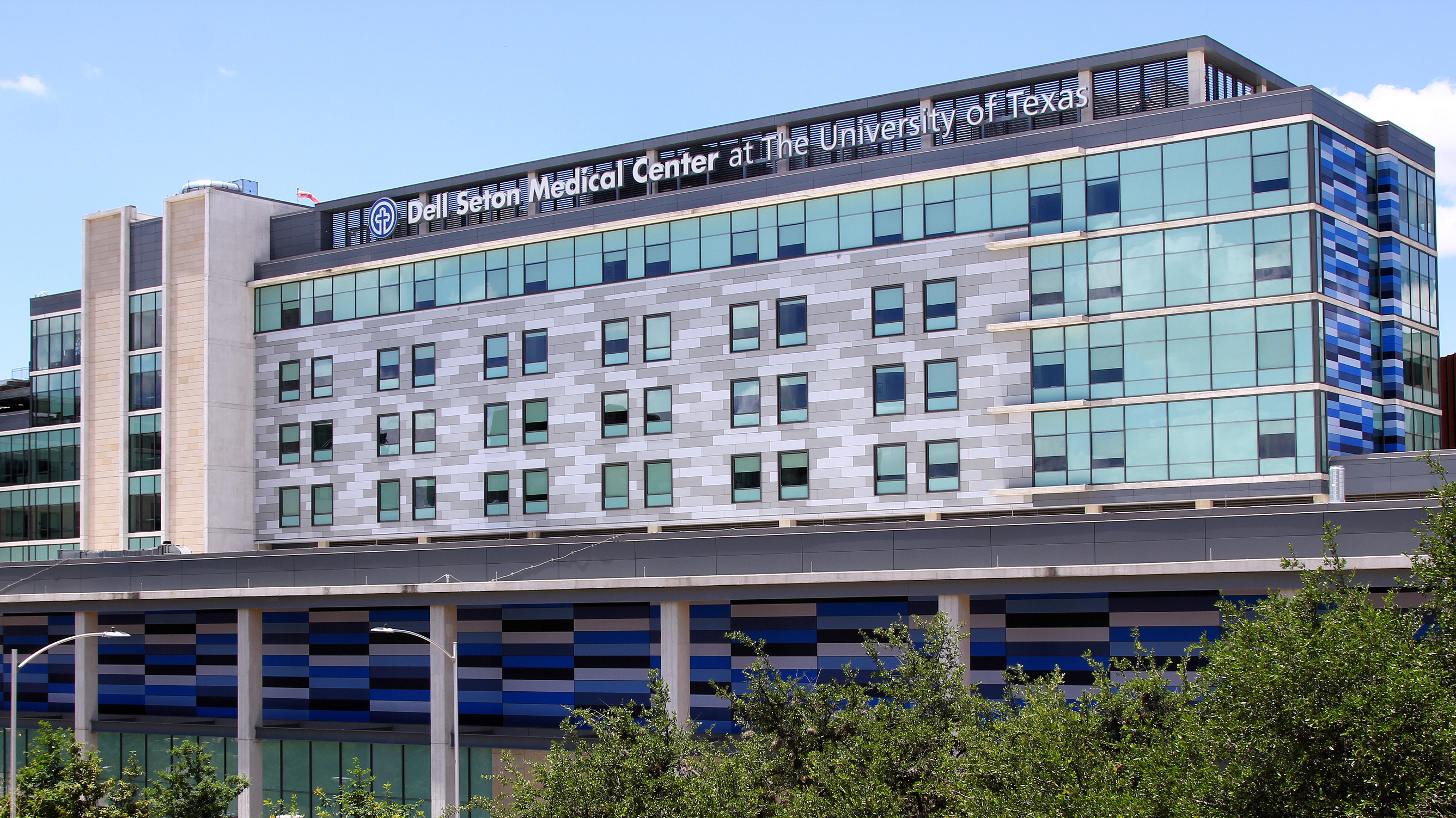 The Dell Seton Medical Center at The University of Texas in Austin, Texas, United States is the primary teaching hospital for Dell Medical School at the University of Texas at Austin.